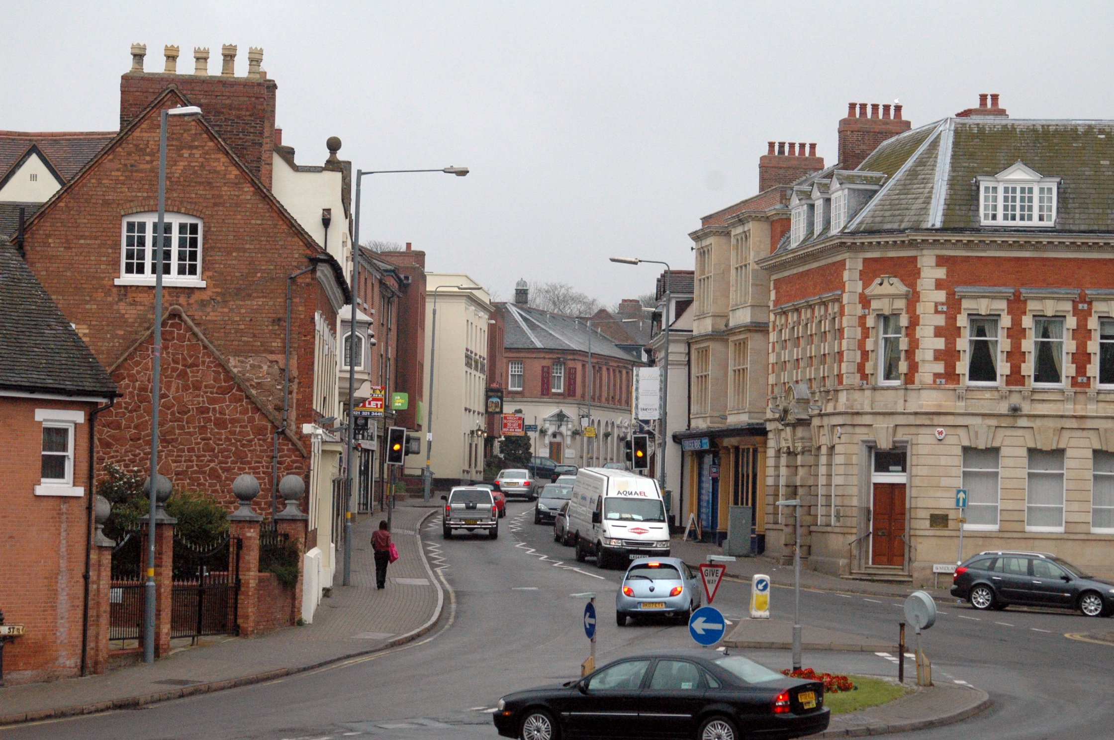 This is Lichfield Road in Sutton Coldfield. This end is home to numerous listed buildings due to their date. The junction in the foreground is with Coleshill Road. Image taken from Vesey Gardens.